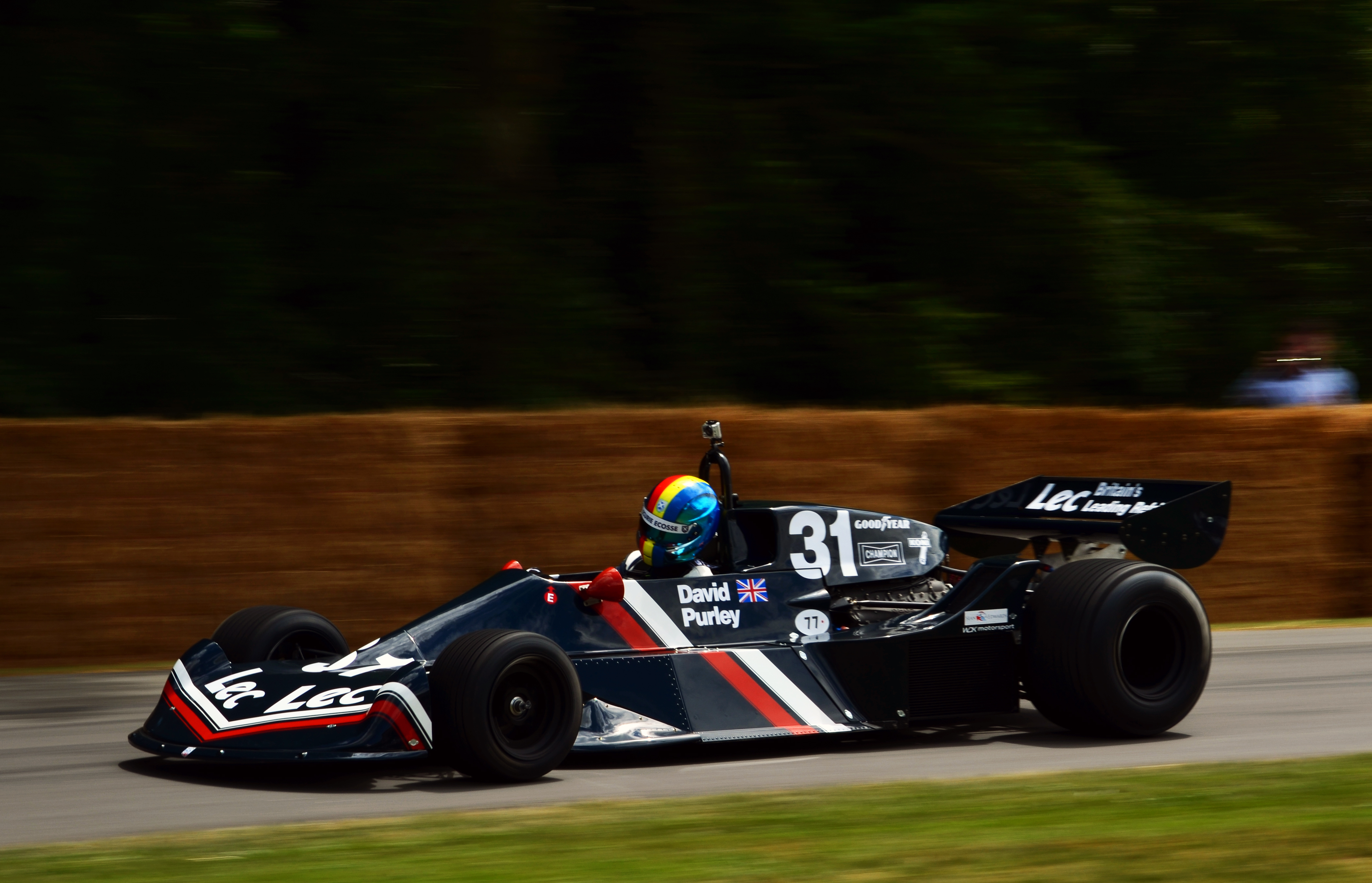 The LEC Cosworth CRP1 F1 car at the 2014 Goodwood Festival of Speed.